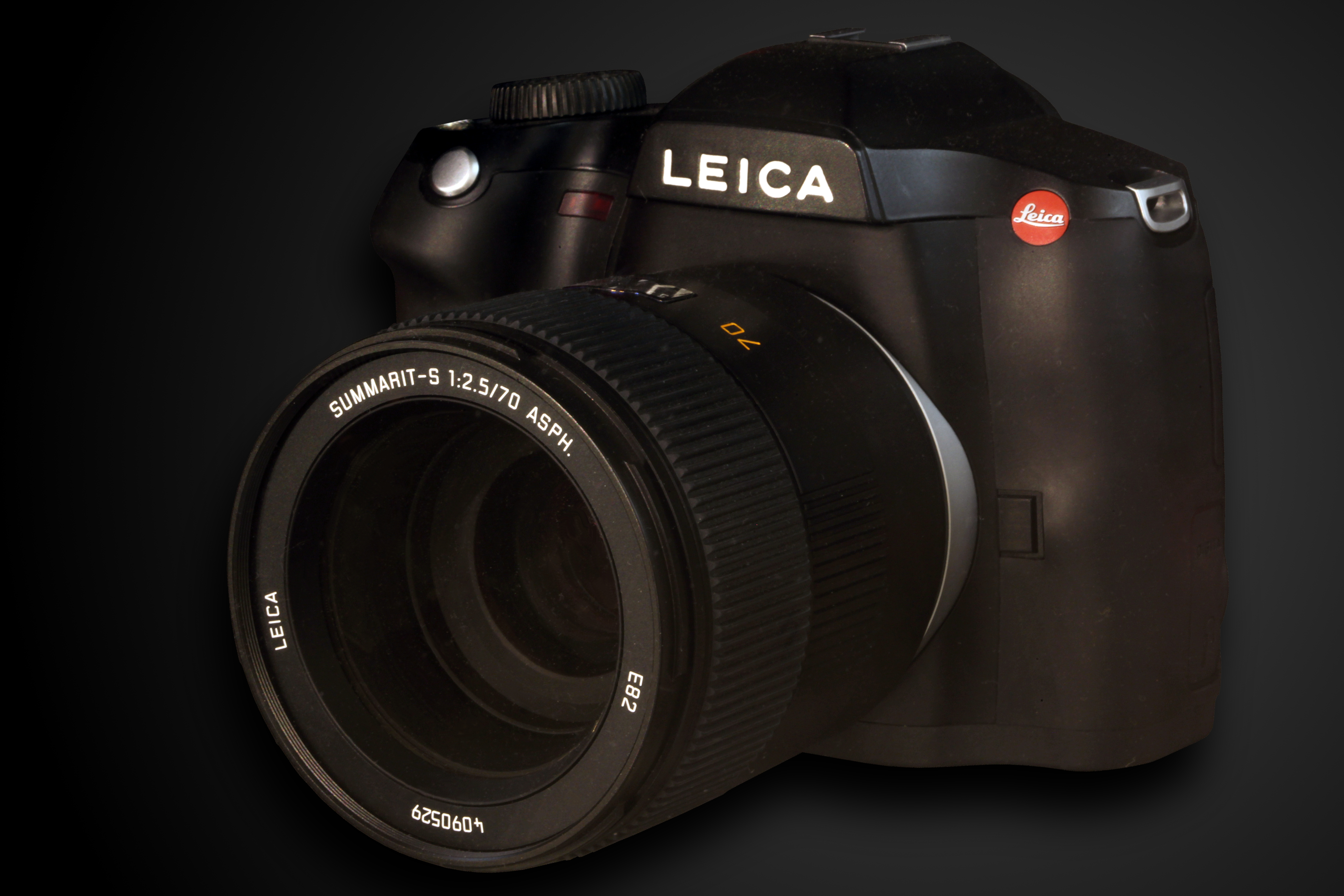 Leica S2. On display at Vevey photography museum.